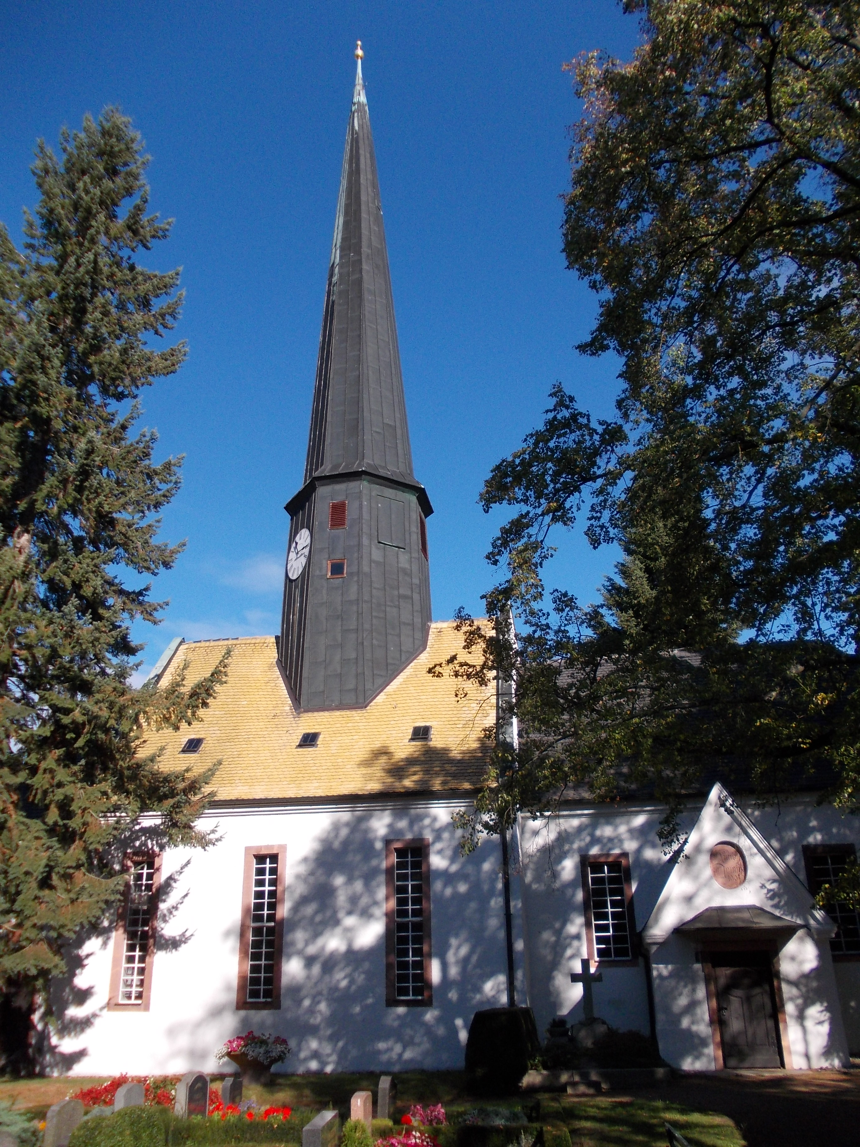 Grossbothen church (Grimma, Leipzig districtt, Saxony)